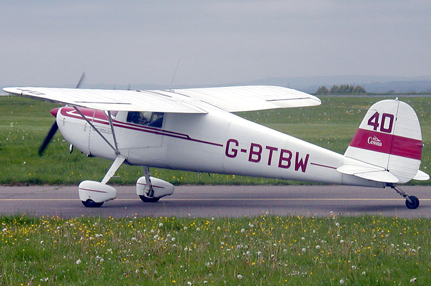 Cessna 120 (G-BTBW), built 1947, at Kemble airfield, Gloucestershire, England.